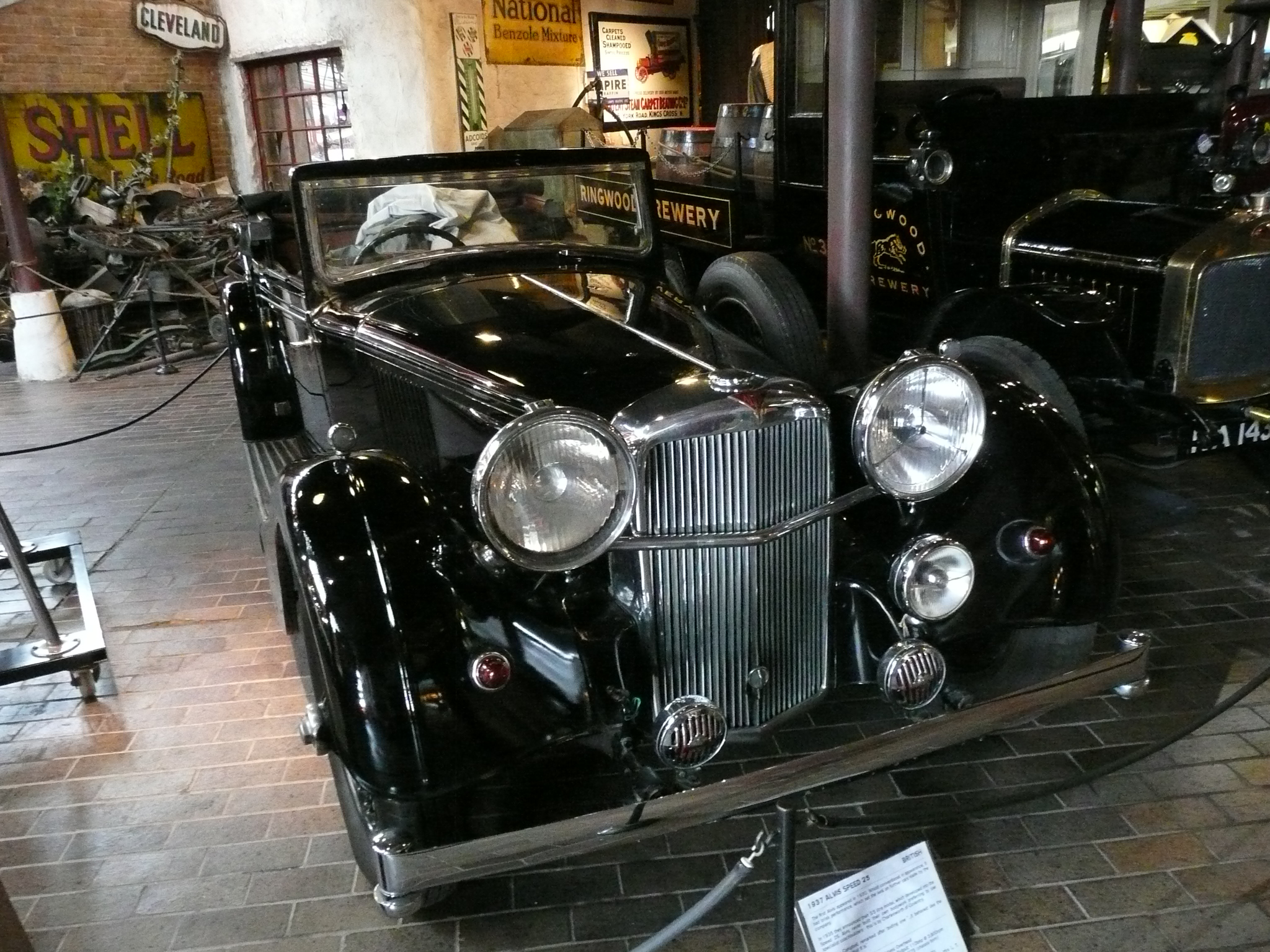 1937 Alvis Speed 25, National Motor Museum in Beaulieu.